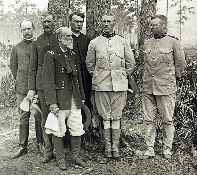 Photo of the staff of the 1st US Volunteer Cavalry Regiment, the Rough Riders taken camp in Tampa, Florida: From Left to right, Maj. George Dunn, Major Brodie, former Confederate Gen. Joseph Wheeler, Chaplain Brown of the Rough Riders, Col. Leonard Wood, and Lt. Col. Theodore Roosevelt. Photo taken just before the regiment embarked for shipping for Cuba during the Spanish-American War. Source US National Archives - (NARA 111-SC-93549) Public Domain US Government Web Site URL